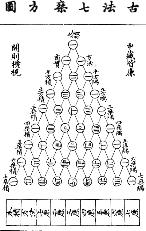 Drawing of Pascal's Triangle published in 1303 by Zhu Shijie (1260-1320), in his Si Yuan Yu Jian. It was called Jia Xian triangle or Yanghui Triangle by the Chinese, after the mathematician Jia Xian and Yang Hui. The fourth entry from the left in the second row from the bottom appears to be a typo (34 instead of 35, correctly given in the fifth entry in the same row).